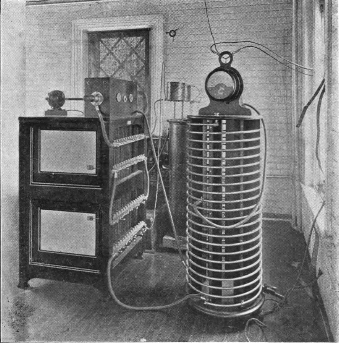 High-power (15 kilowatt) spark-gap transmitter at the United States Navy Yard, Washington DC. call sign| QI from 1907 on 840 and 1125 meters, on 900 meters from 1908, call NAL from 1909. Manufactured by Massie Wireless Telegraph Company.[1] Original caption: "Figure 8. – High-power Outfit, with Rotating Spark-gap Mounted on Leyden-jar Battery Frame, and Hot-wire Current Meter Mounted on Inductance Frame. – Navy Yard, Washington, D. C."